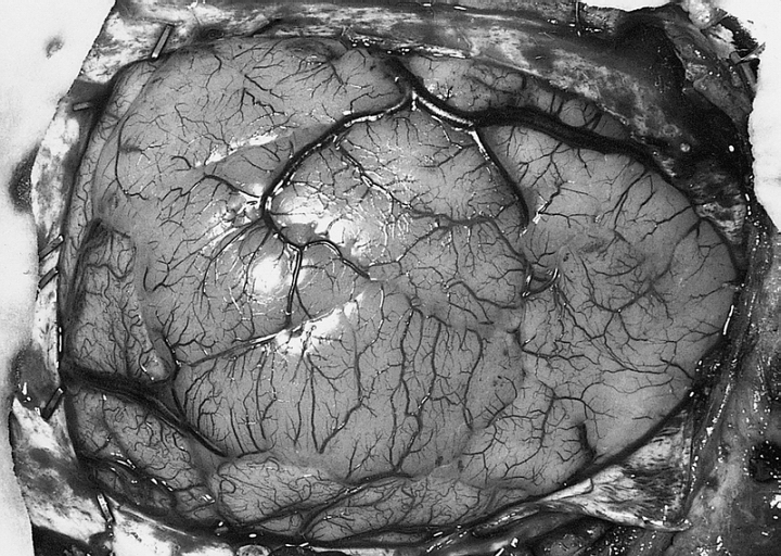 Image# 405550- CNS: ANAPLASTIC ASTROCYTOMA As in this specimen from a 40-year-old man with a recent onset of seizures, anaplastic astrocytoma may infiltrate the cerebral cortex to expand and deform gyri.